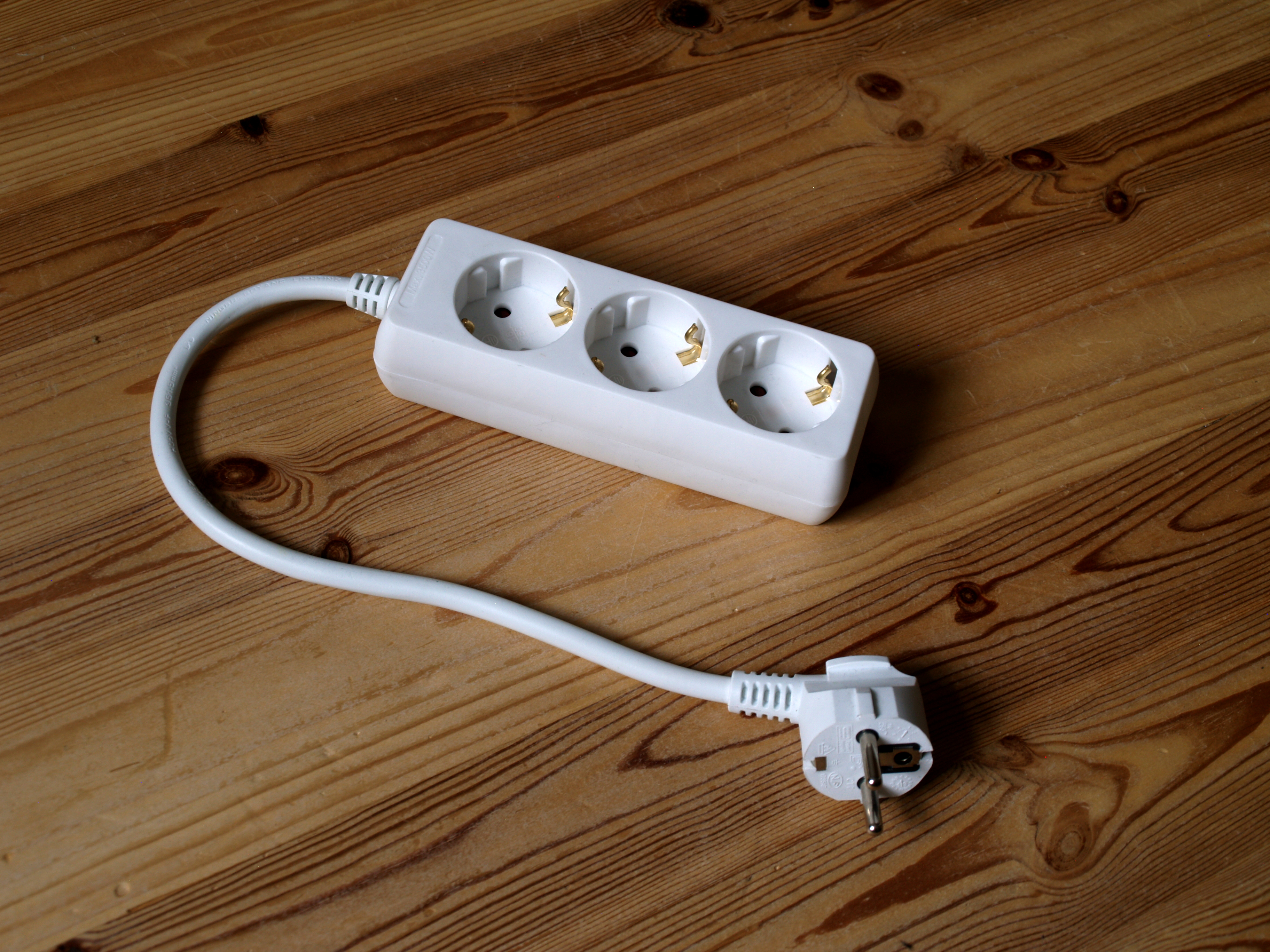 Schuko Power Strip